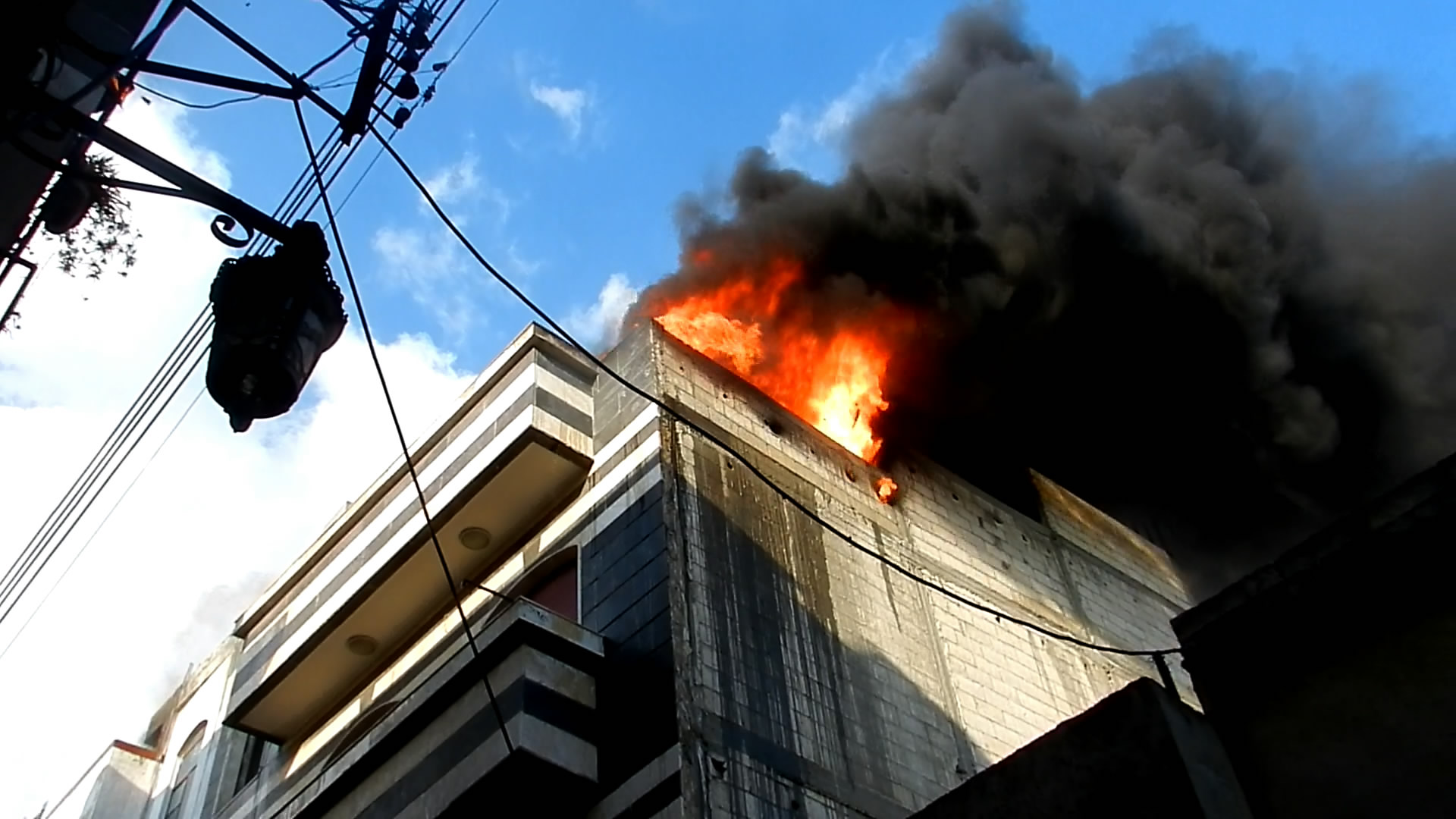 A burning house in the neighborhood of Orchard Court in Homs Syria after bombing of the Syrian army who is trying to suppress the revolution against the regime there.